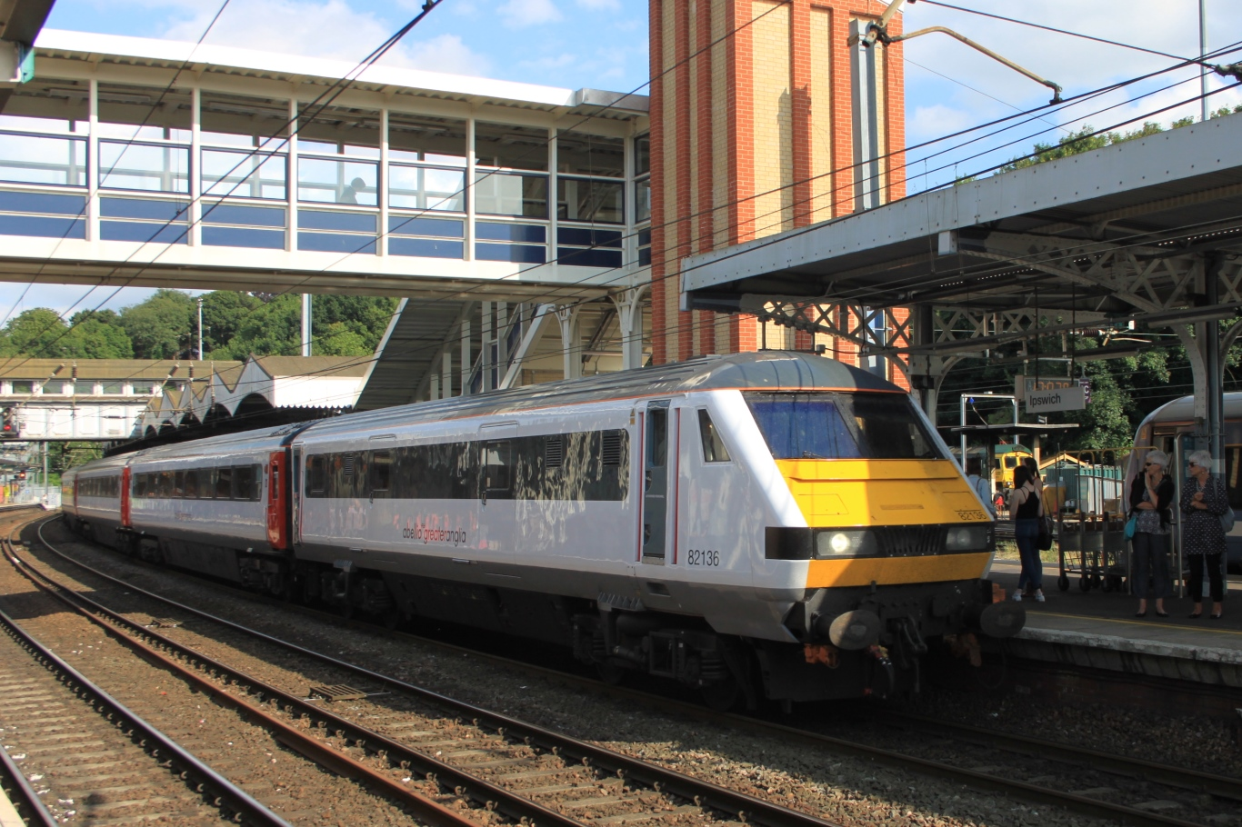 An Abellio Greater Anglia train from London to Norwich calls at Ipswich. Driving Van Trailer 82136 has recently been repainted into Abellio Greater Anglia livery.